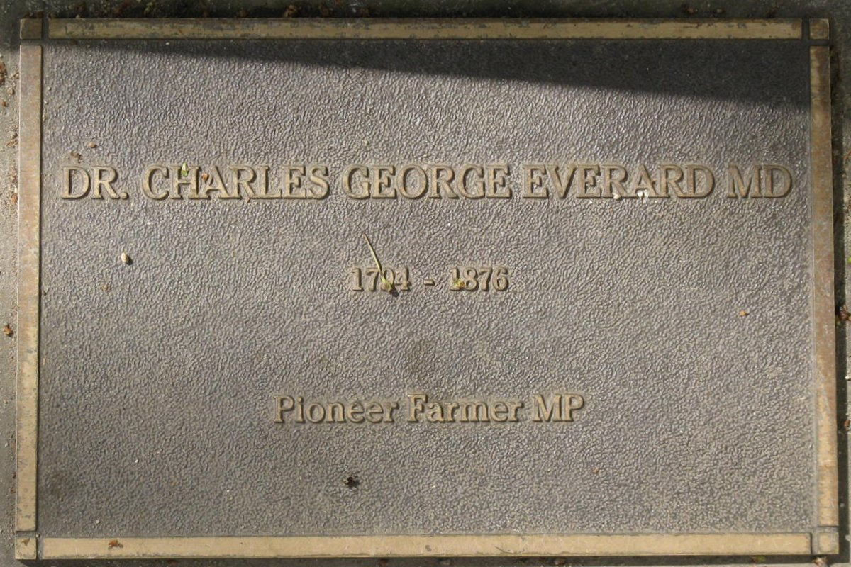 Jubilee 150 Walkway Plaque commemorating Dr. Charles George Everard.